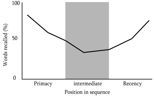 A graph demonstrating the serial position effect